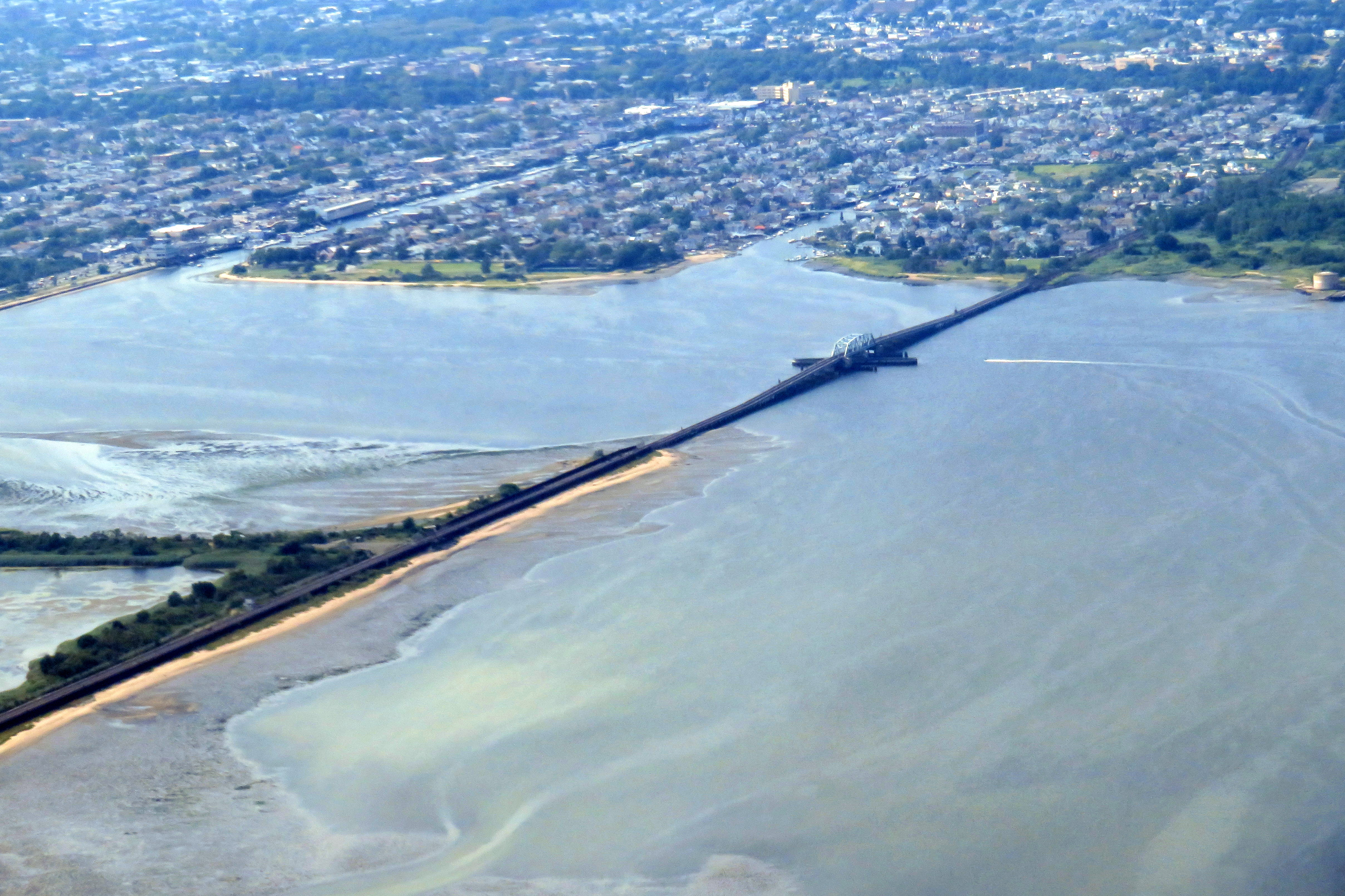 Aerial view of the North Channel Bridge in August 2019